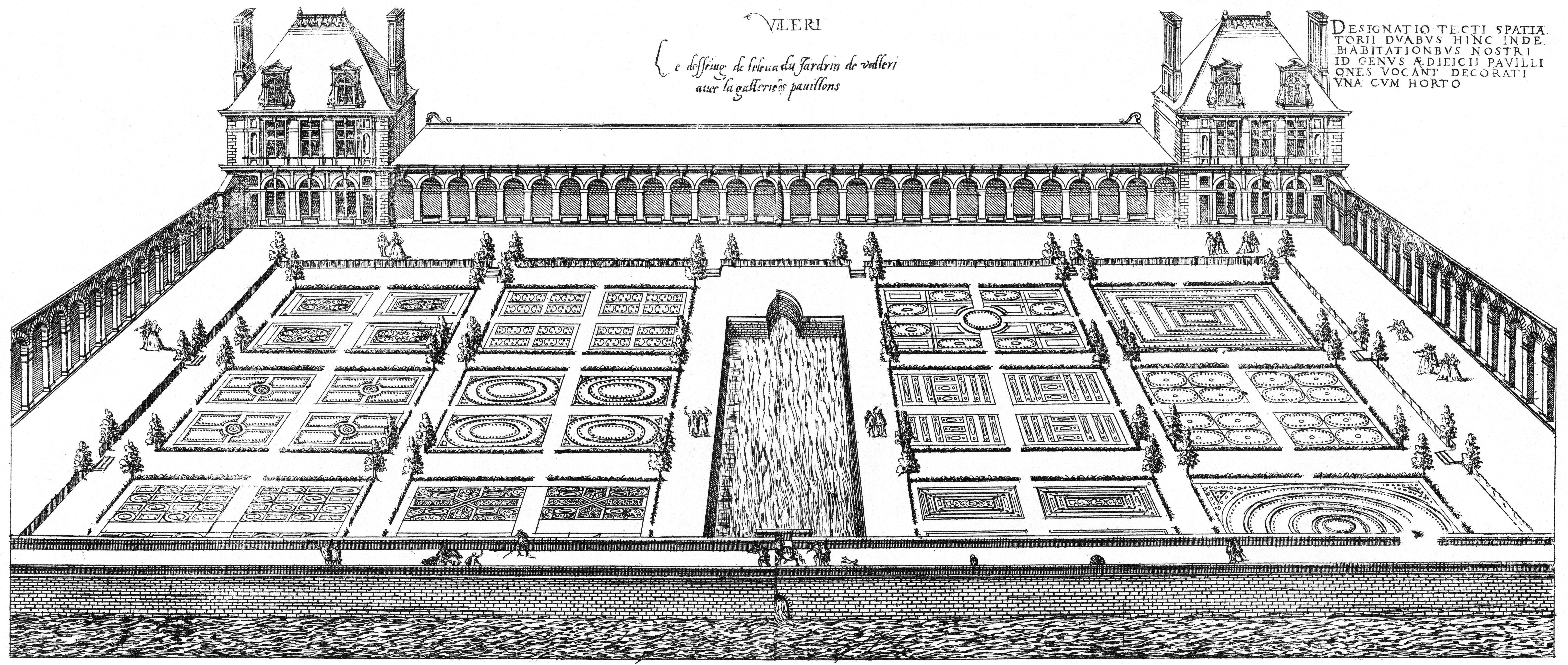 Engraving from Le premier volume des plus excellents Bastiments de France by Jacques I Androuet du Cerceau: Château de Vallery. Bird's-eye view of the garden with the gallery and pavilions